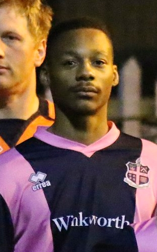 Dulwich Hamlet footballer Ethan Pinnock lining up with his teammates.